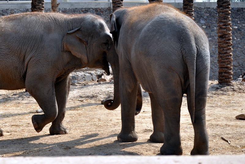 Nature and Colors